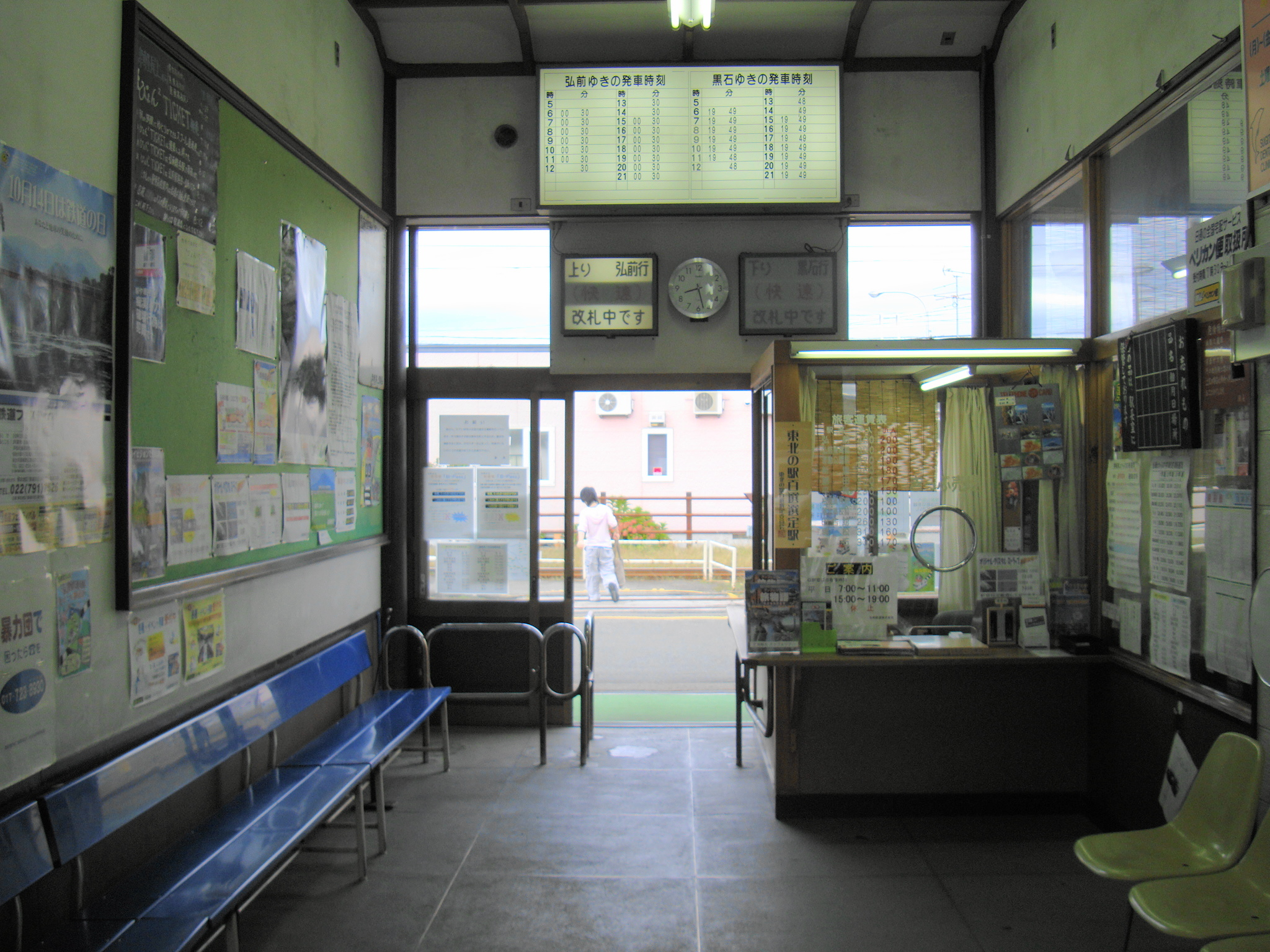 Tsugaru-Onoe Station